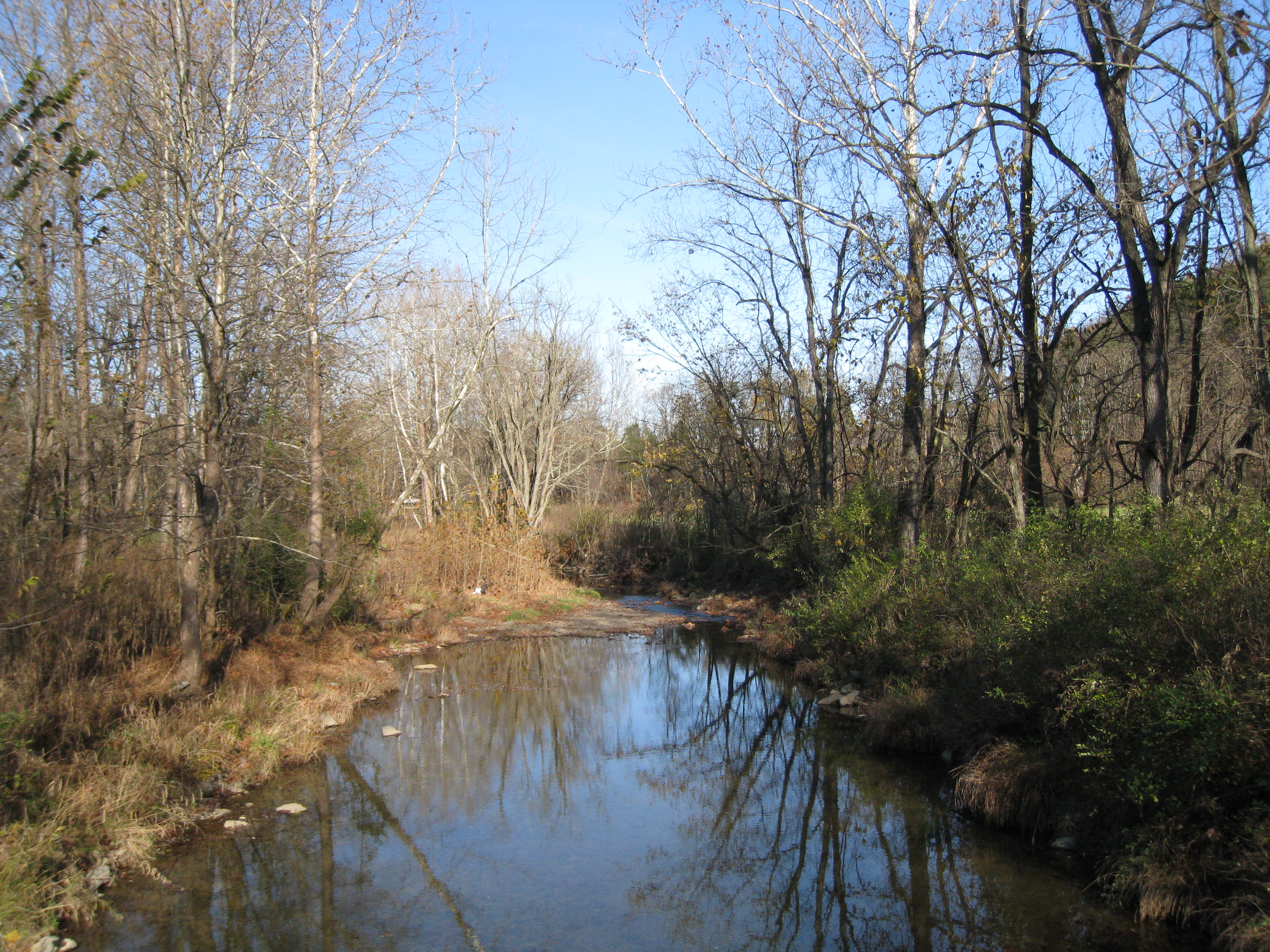 Mill Creek viewed from Trinity Road (County Route 220/11) bridge at Junction, West Virginia, United States.